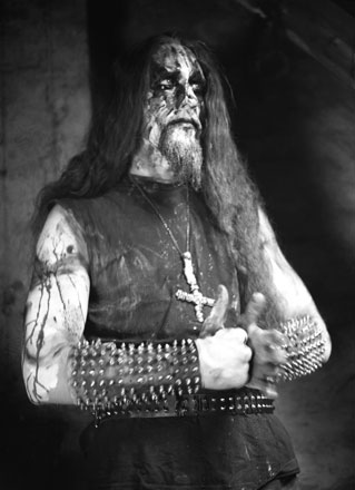 Gaahl in 2003.